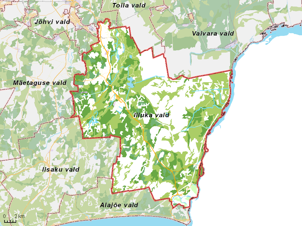 Map of municipality in Estonia